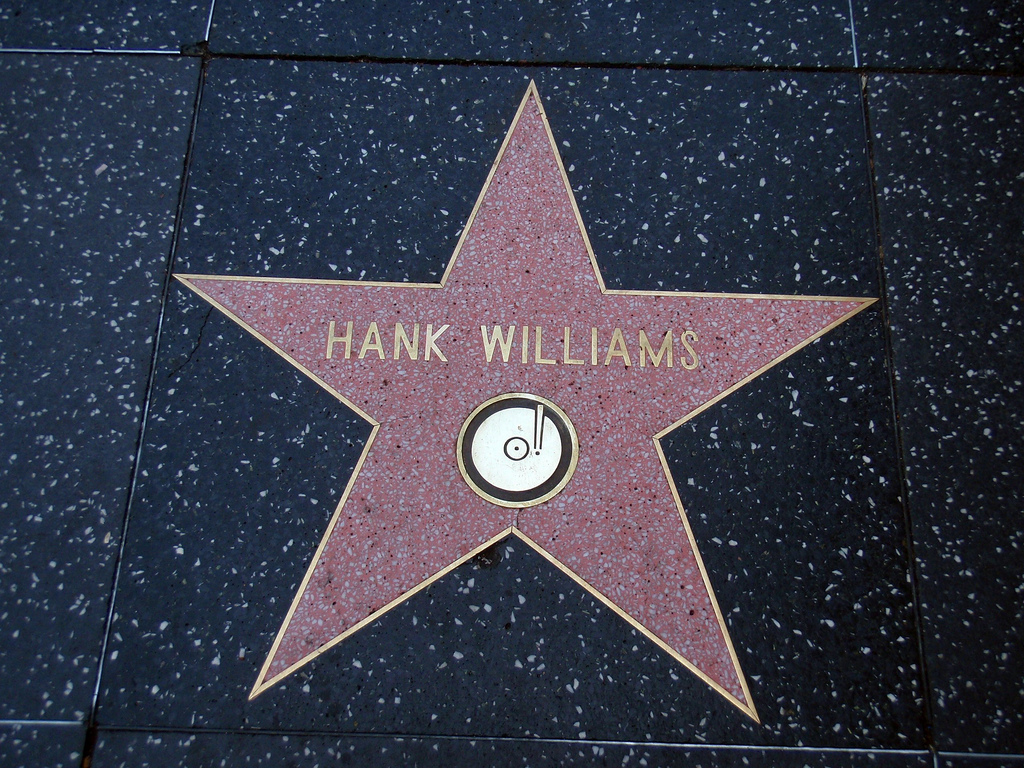 Hank Williams' star at the Hollywood Walk of Fame